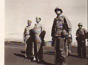 Preparing to inspect the troops of the 2nd Battalion, 23rd Marines (From the Left): Colonel L. B. Cresswell, Commanding Officer, 23rd Marines (Later Major General Cresswell), Major General C. B. Cates, Commanding Officer, 4th Marine Division (Later 19th Commandant of the Marine Corps), Major R. H. Davidson, Commanding Officer, 2nd Battalion 23rd Marines